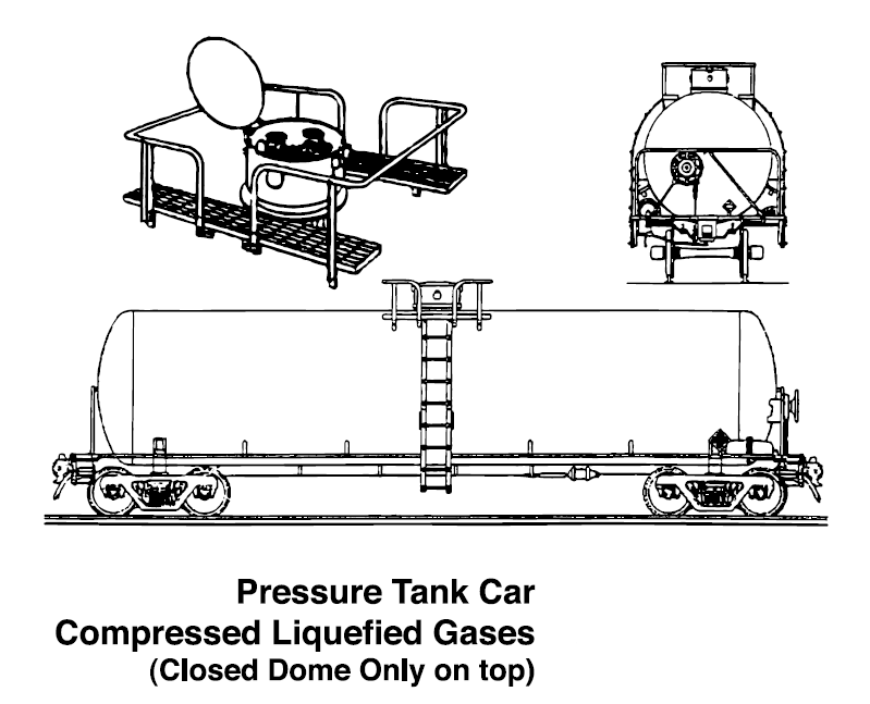 Line drawing showing the side, top and end of a compressed liquified gas tank car.